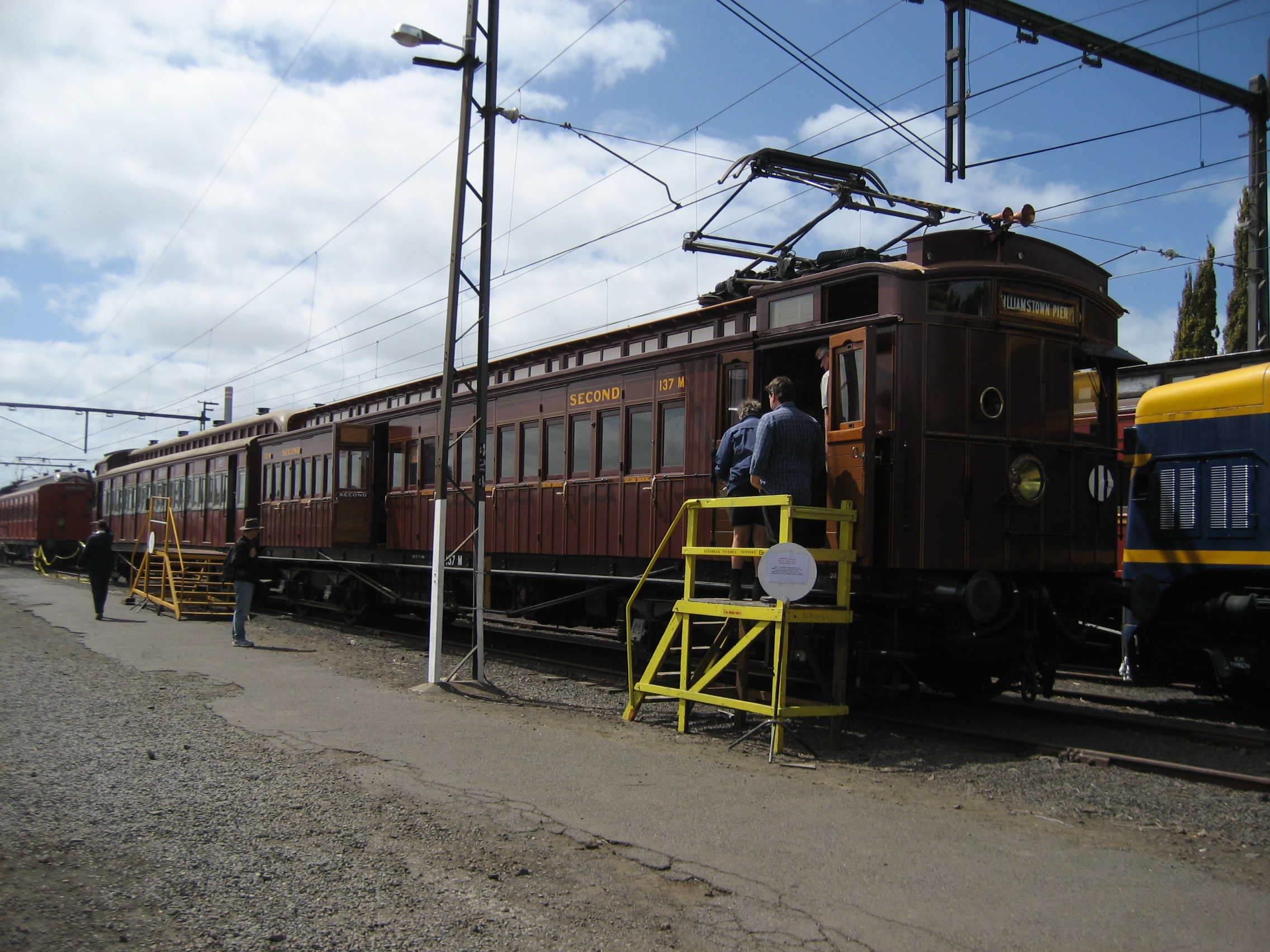 Swing Door 137M at the Newport Workshops